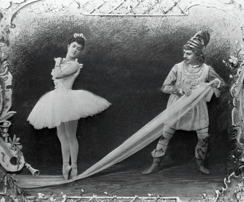 First performance of Nutcracker in Mariinsky Theater